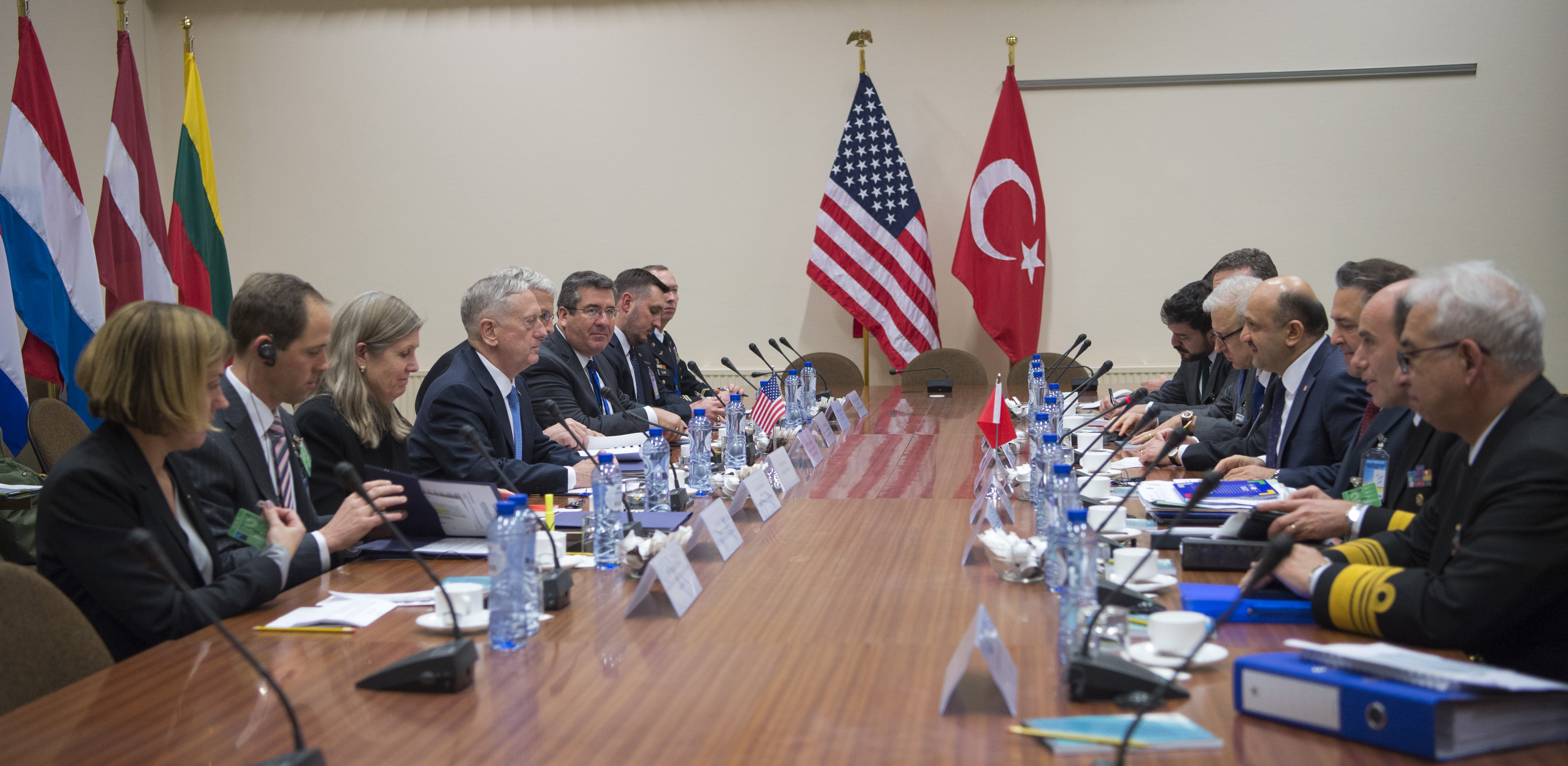 Secretary of Defense Jim Mattis meets with Turkish Minister of National Defense Fikri Isik at the NATO Headquarters in Brussels, Belgium, Feb. 15, 2017. (DOD photo by U.S. Air Force Tech. Sgt. Brigitte N. Brantley)